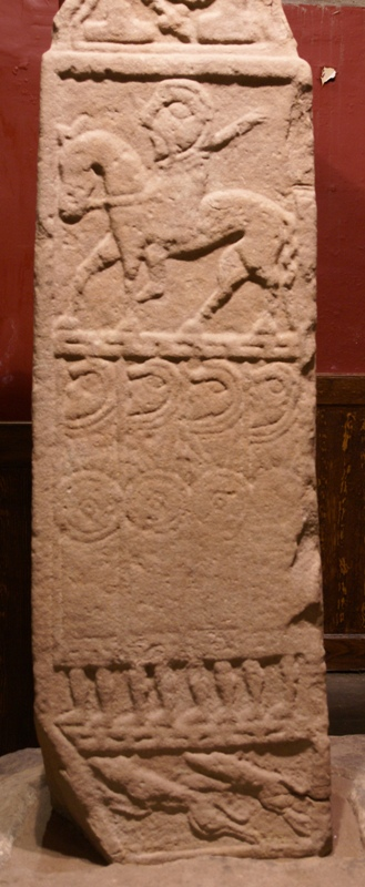 Dupplin Cross, St Serf's Church, Dunning, Perth and Kinross, Scotland - from east, depicting on top King Constantin of the Picts